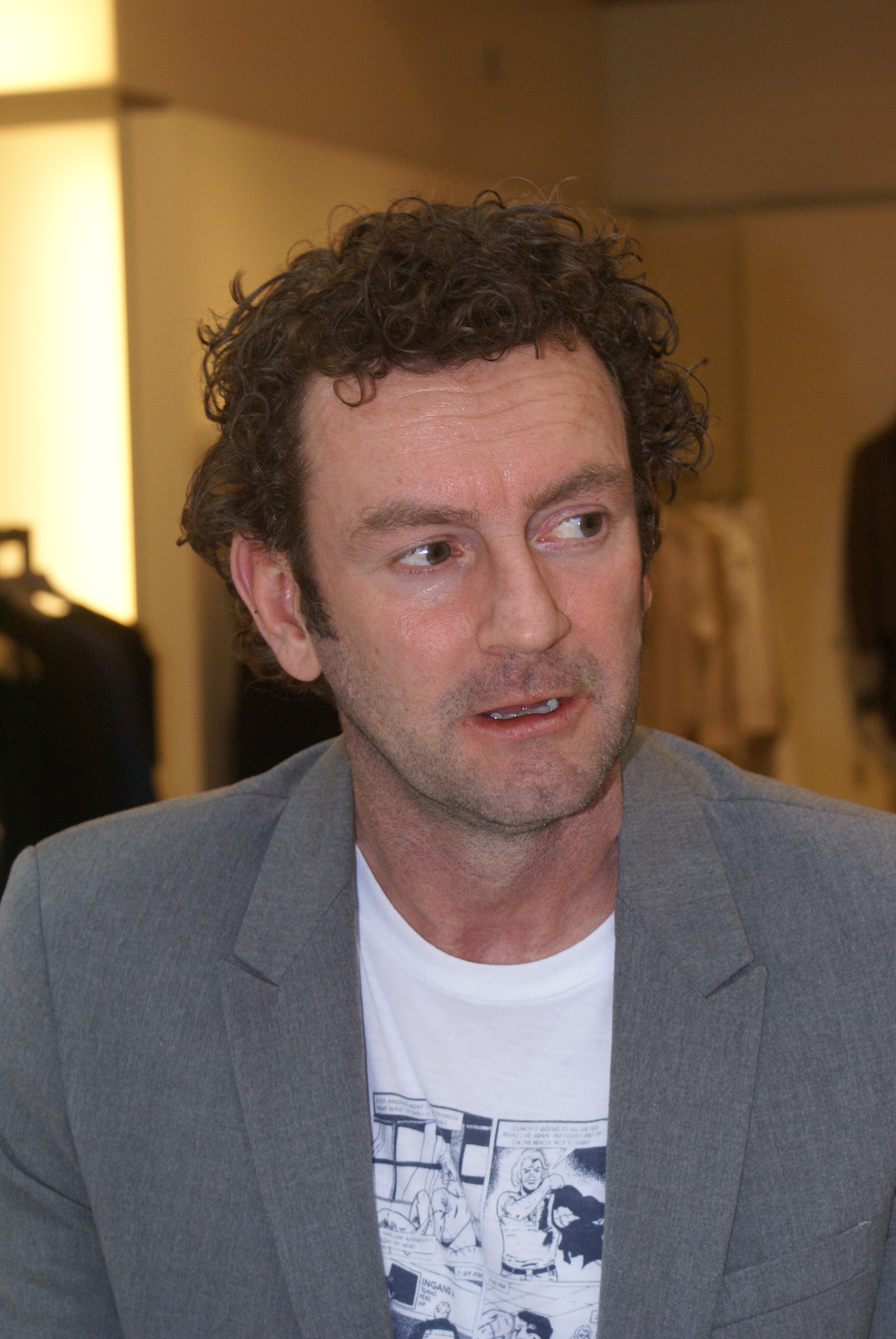 Dutch author Kluun at a book signing in the Amsterdam department store "De Bijenkorf" in March 2011